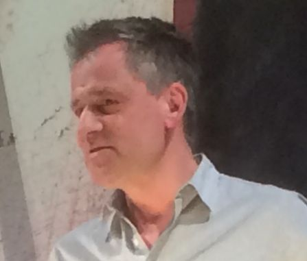 Michael Grandage, 2018, on the set of Red at the Wyndham's Theatre